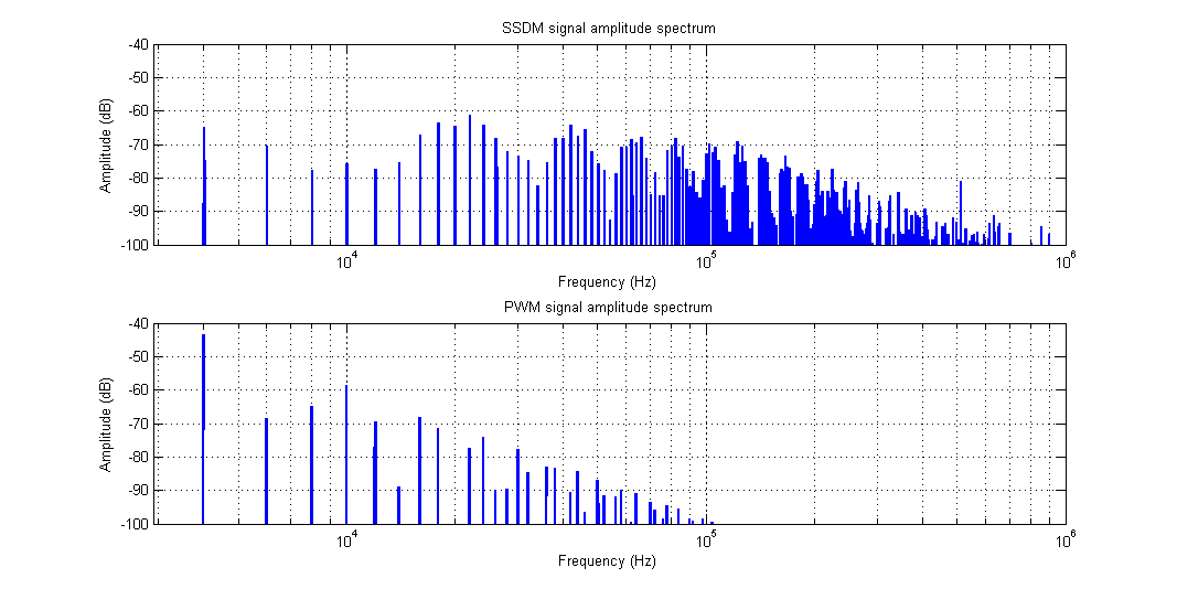 Demonstrates the differences in amplitude spectrum of SSDM and PWM signals. It's clear that on SSDM the amplitude on the fundamental frequency is significantly lower than on the PWM. With SSDM the energy is shifted on the higher end of the spectrum.